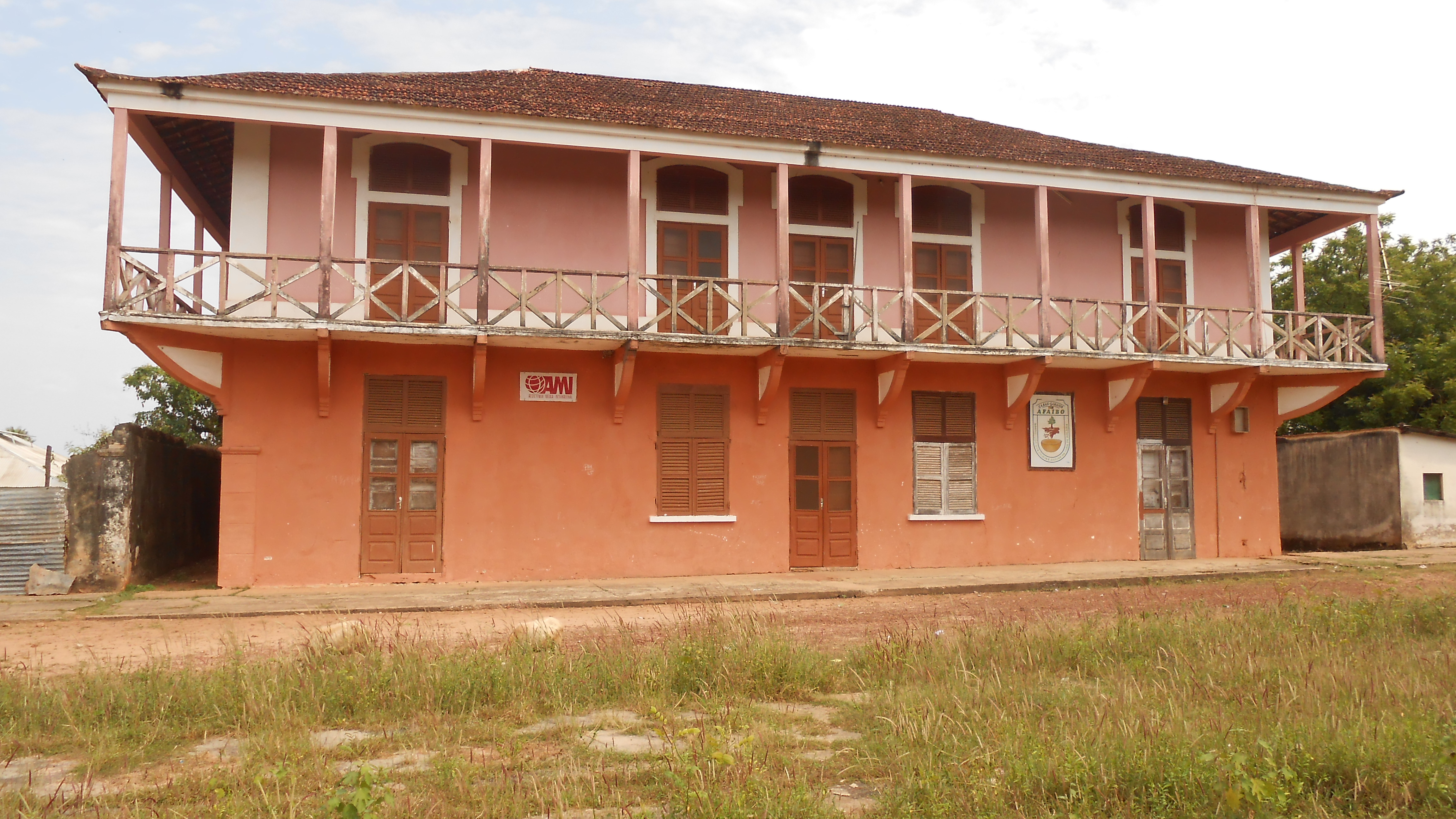 A colonial house in Bolama, in Guinea-Bissau, residence of the regional unit of portuguese NGO AMI.